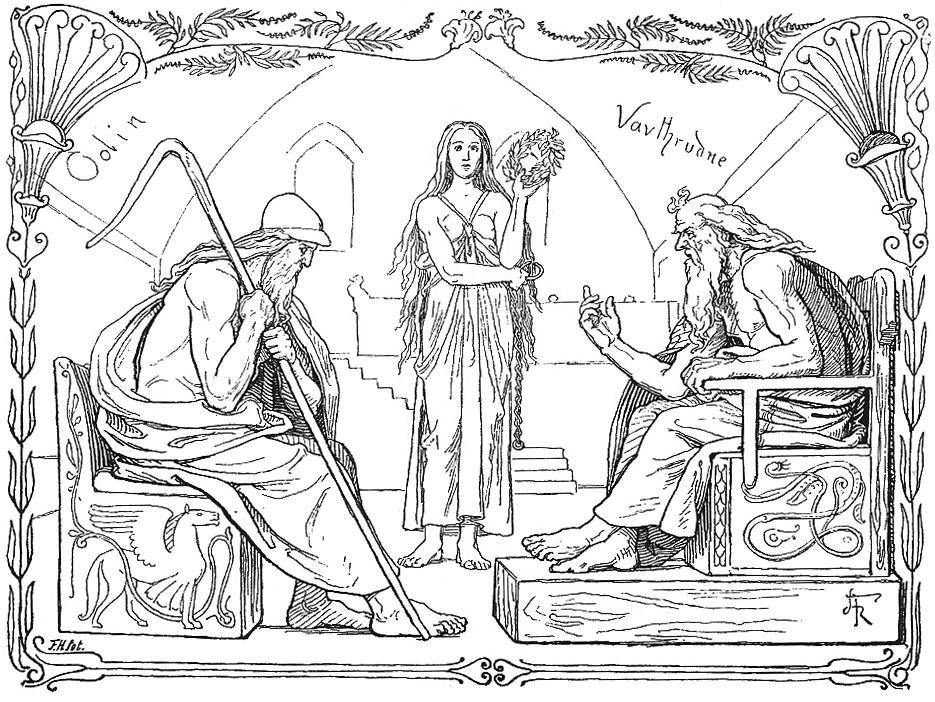 Both seated, Odin and the wise jötunn Vafþrúðnir engage in a game of wits. A woman stands centrally behind them, holding a wreath. The woman is not attested in Vafþrúðnismál and seems to be an invention of the artist.